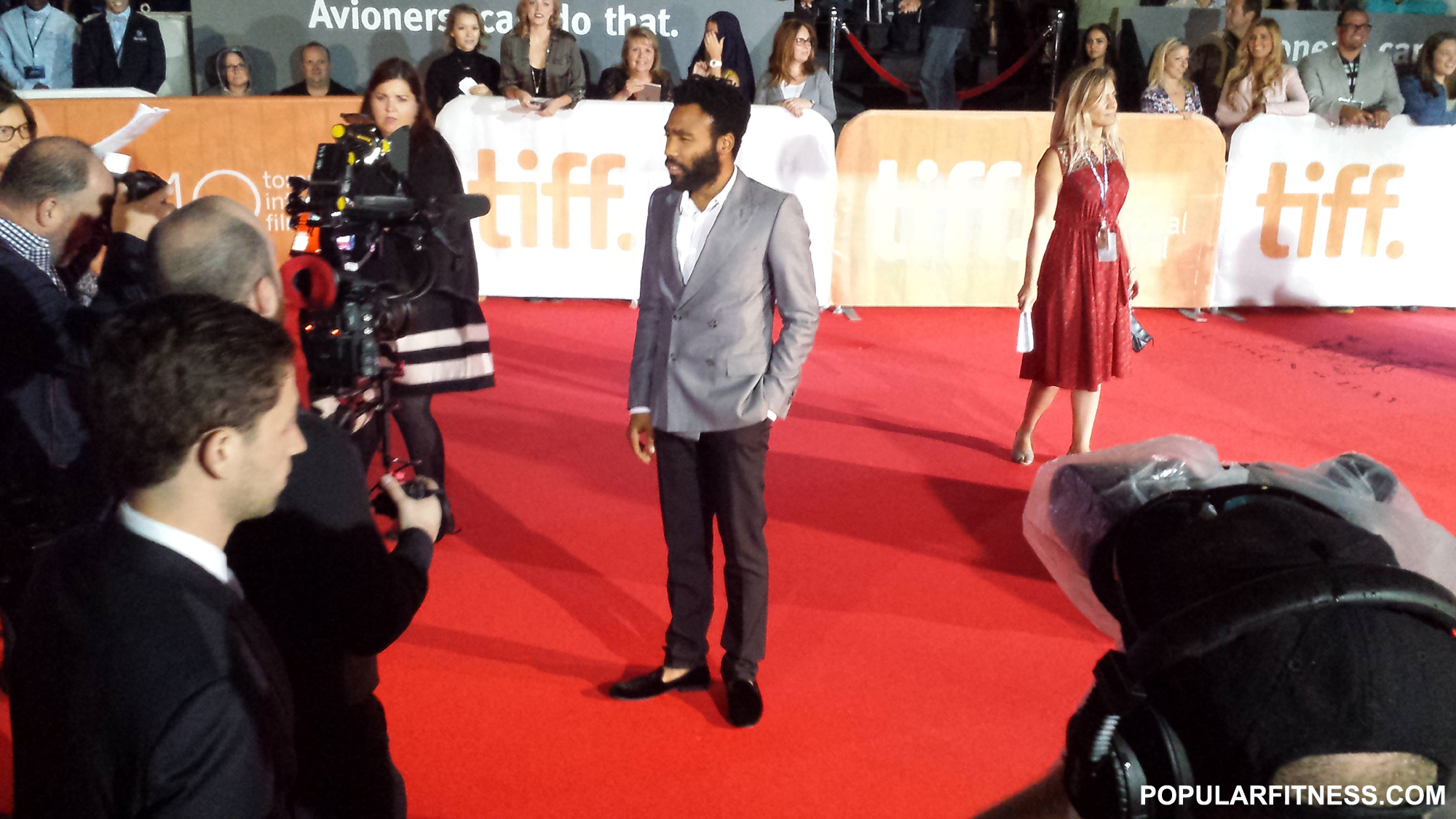 Actor Donald Glover posing at TIFF. Watch video here